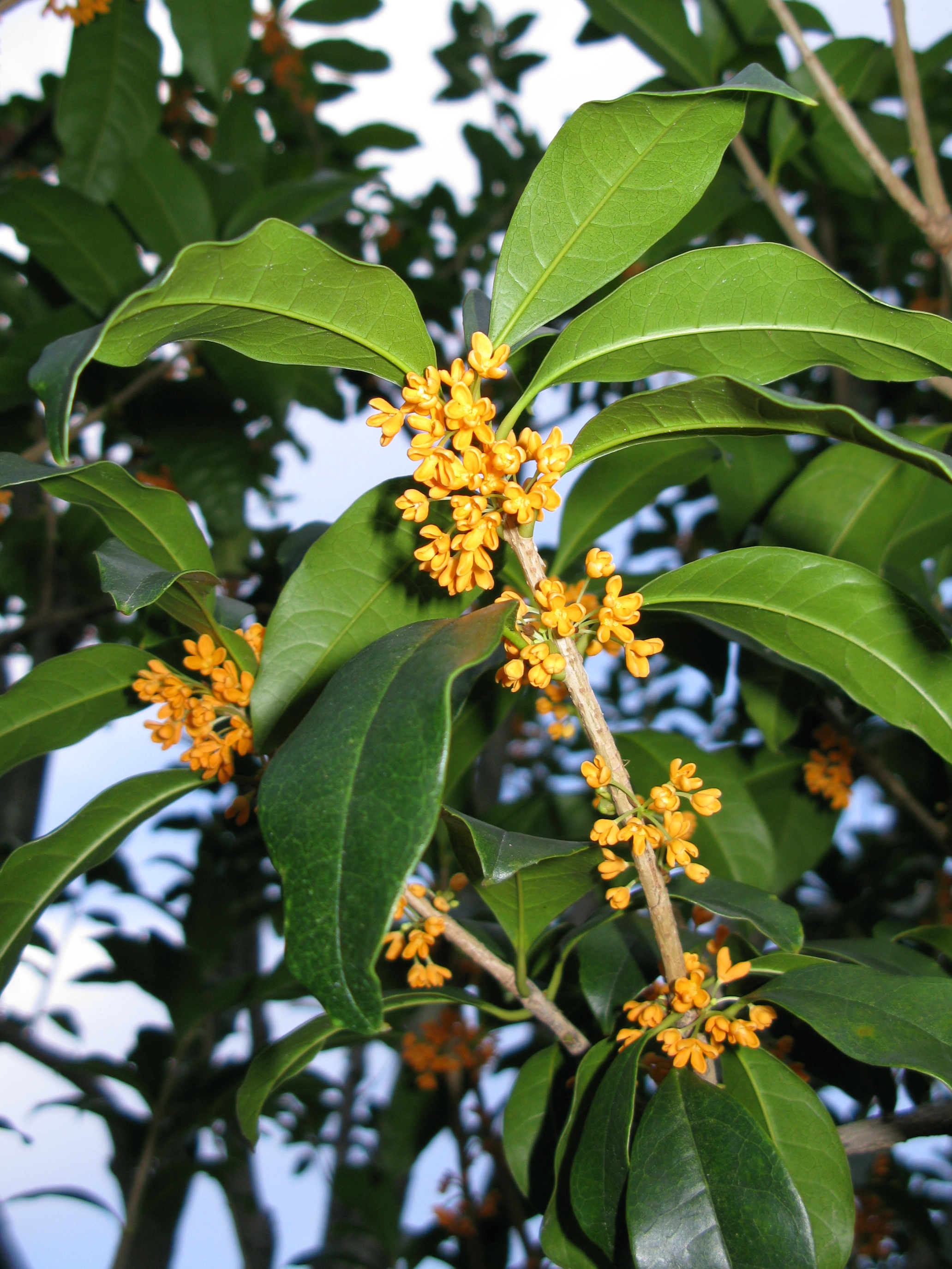 Osmanthus fragrans var. aurantiacus , Kyoto city, Japan